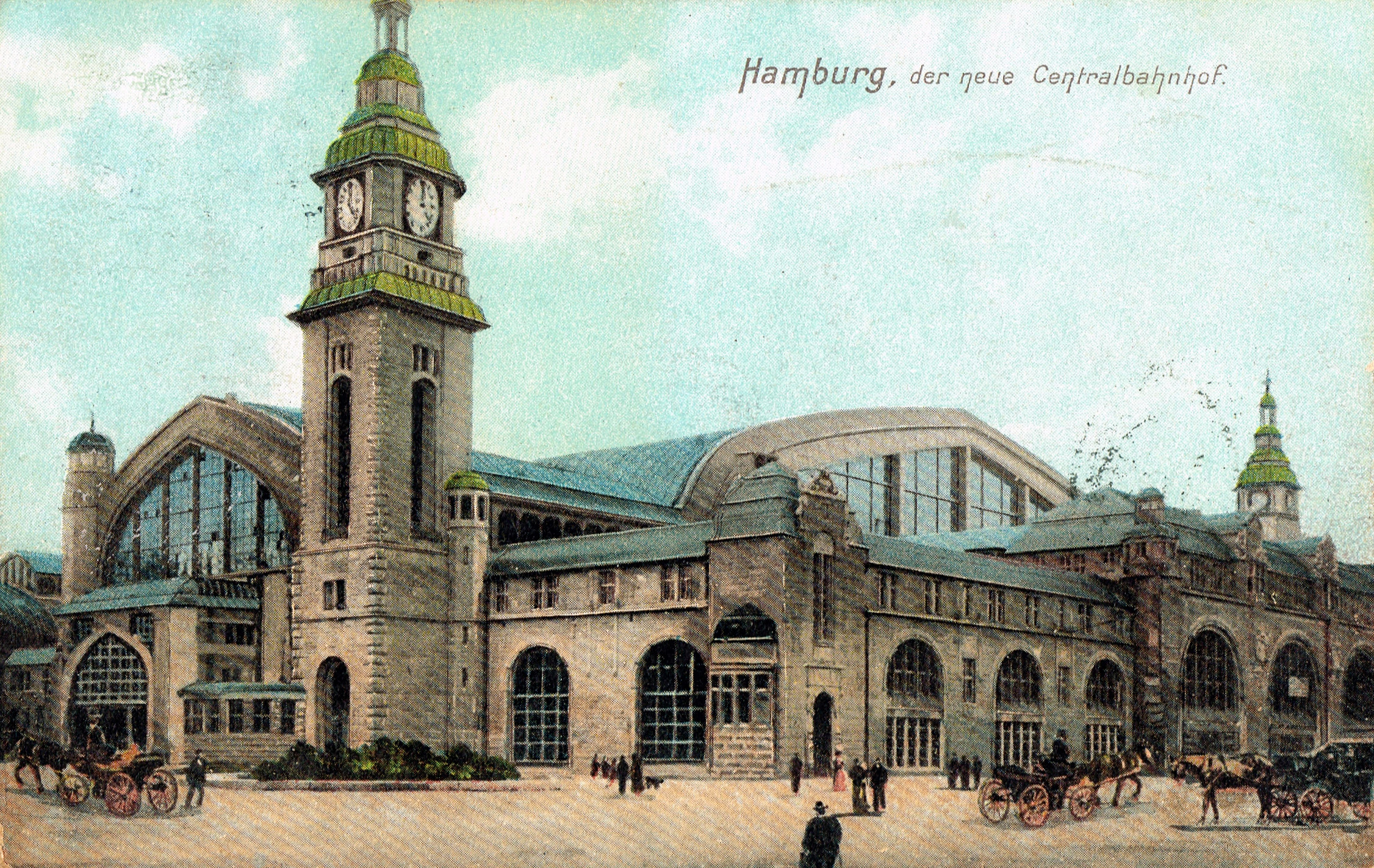 Postcard of Hamburg published in or before 1906